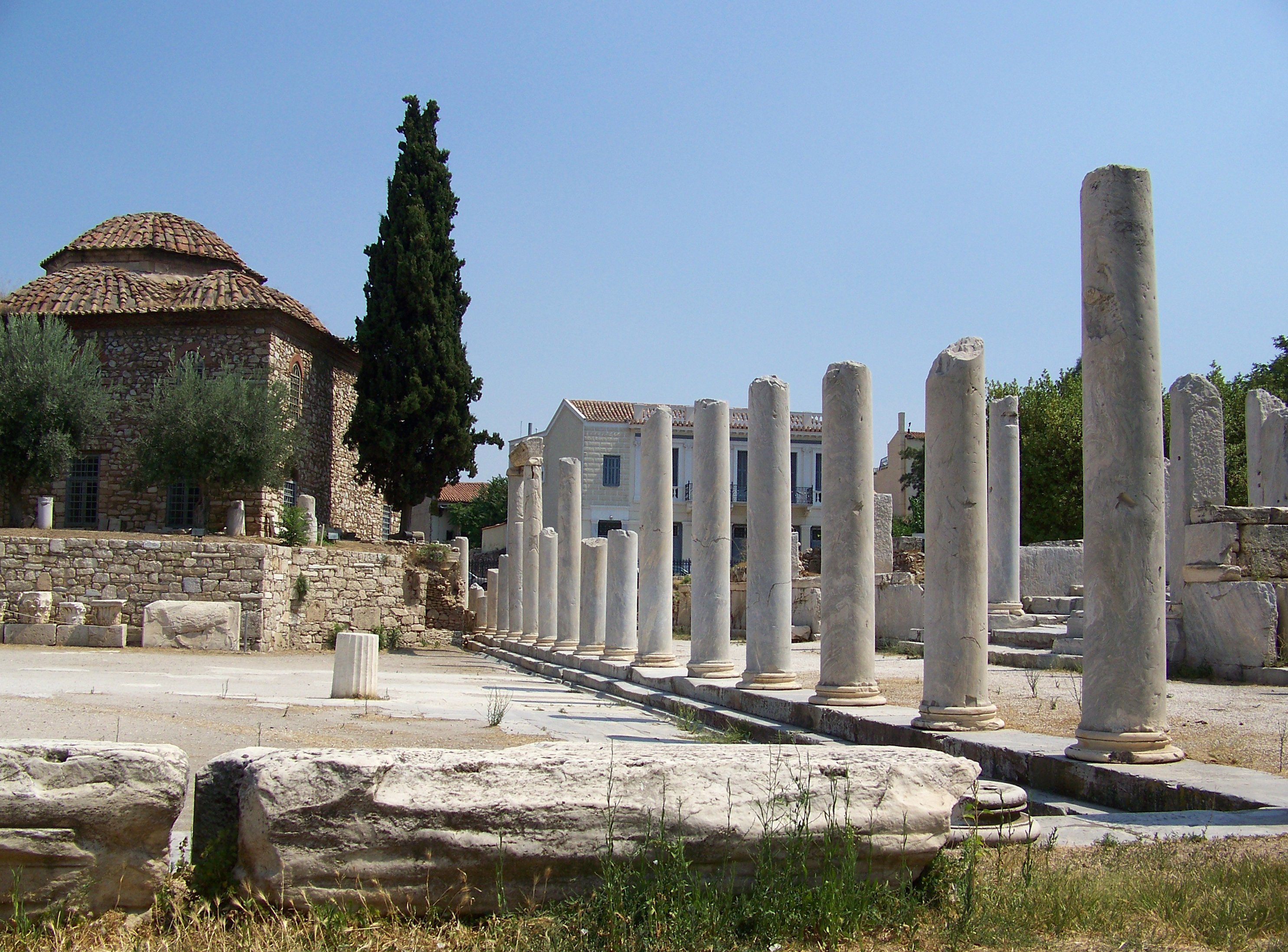 Fethiye mosque and roman forum columns in Athens, Greece.